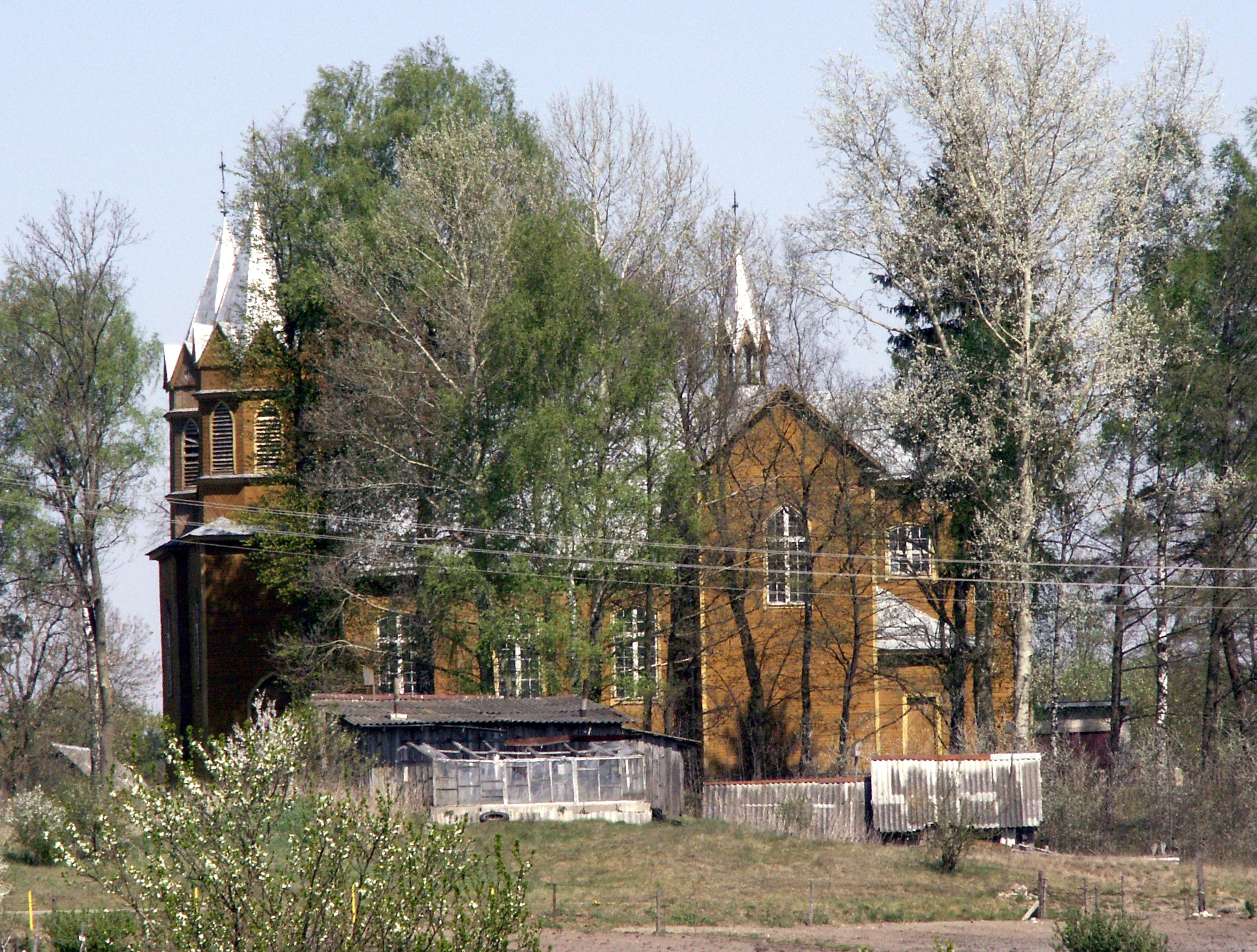 Churche of Dubičiai, Varėna district, Lithuania